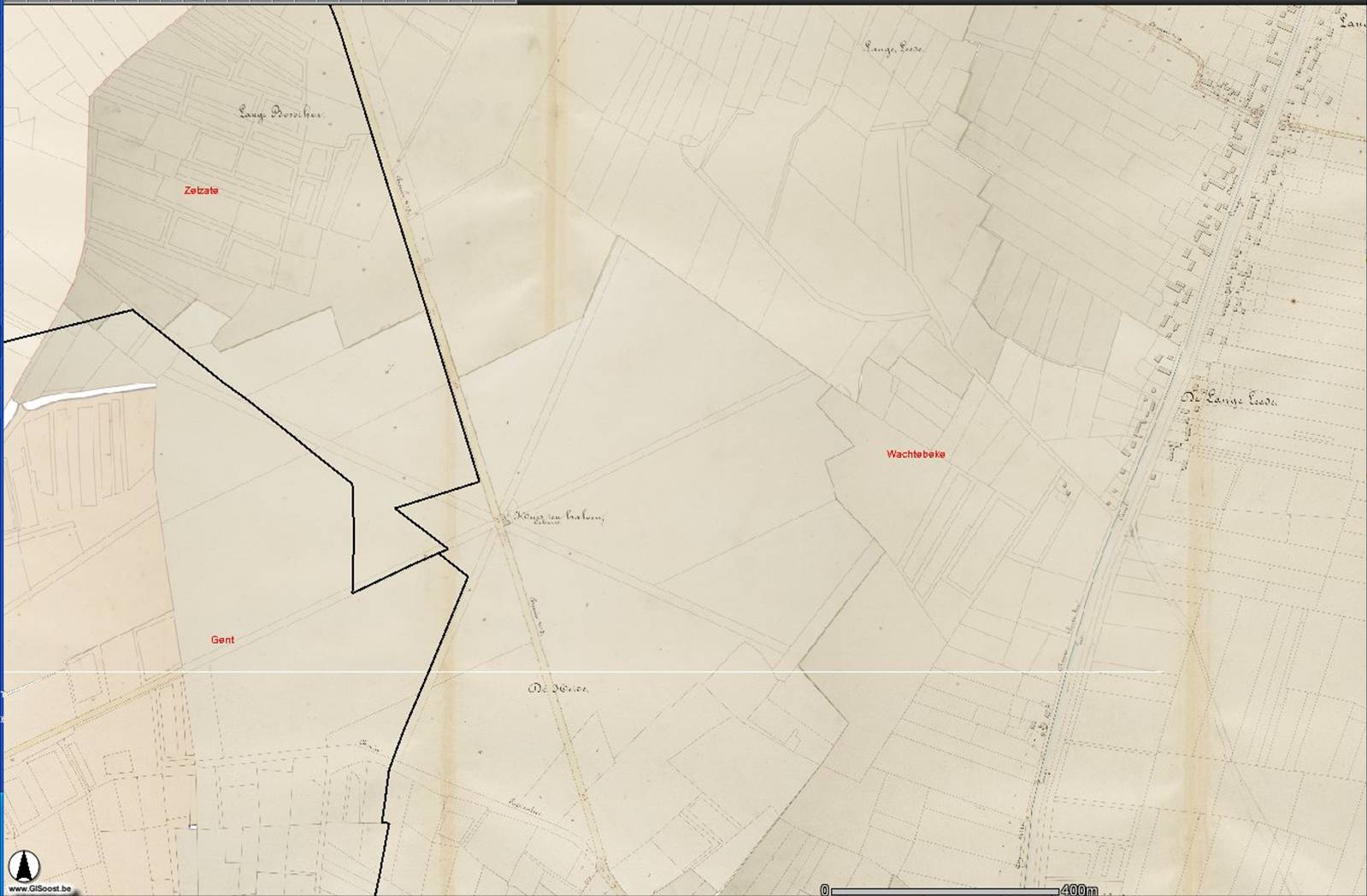 Kloosterbos,_Belgium,_Atlas_der_buurtwegen.jpg